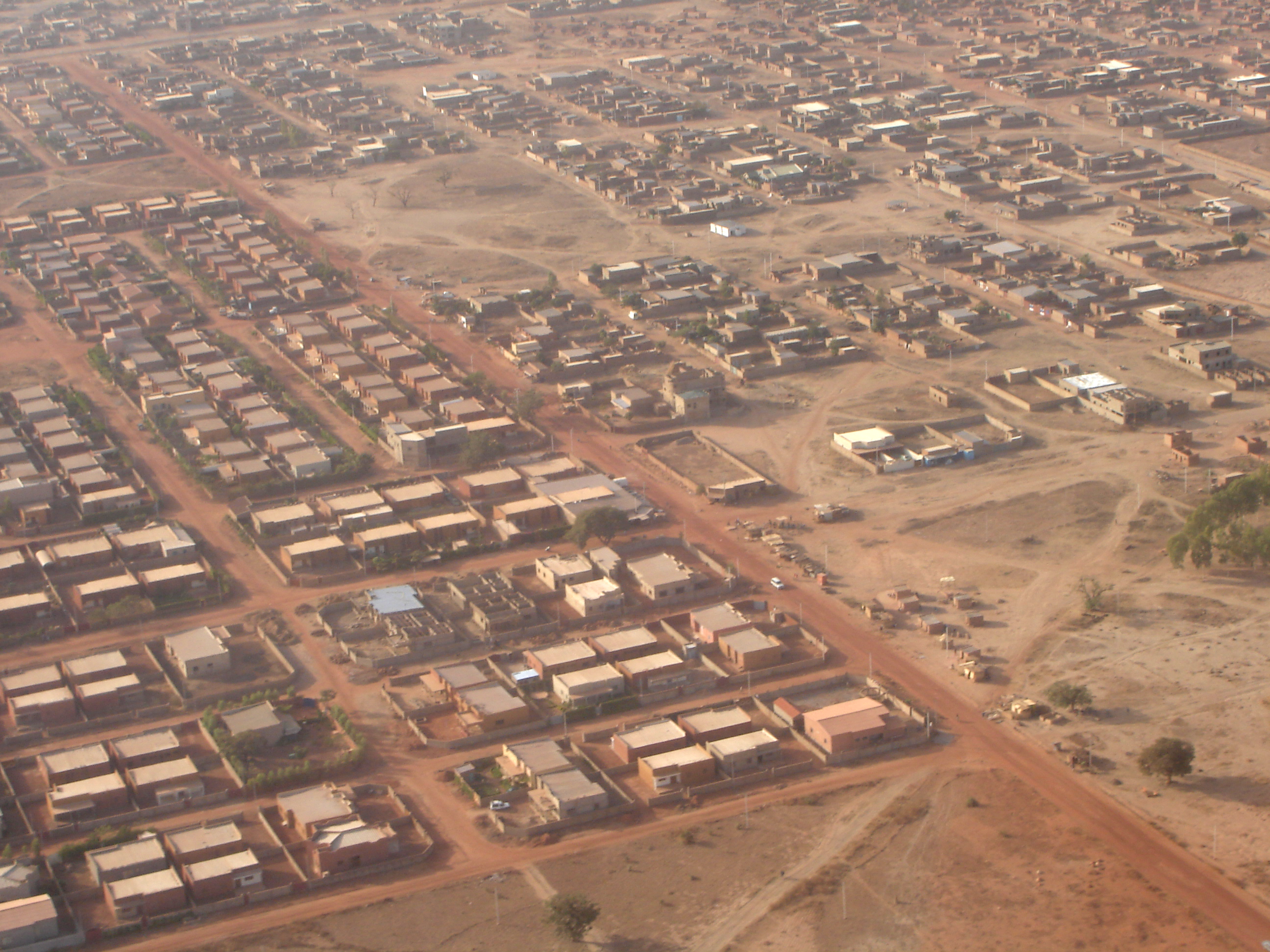 Burkina Faso: aerial view of Ouagadougou (Secteur 17)